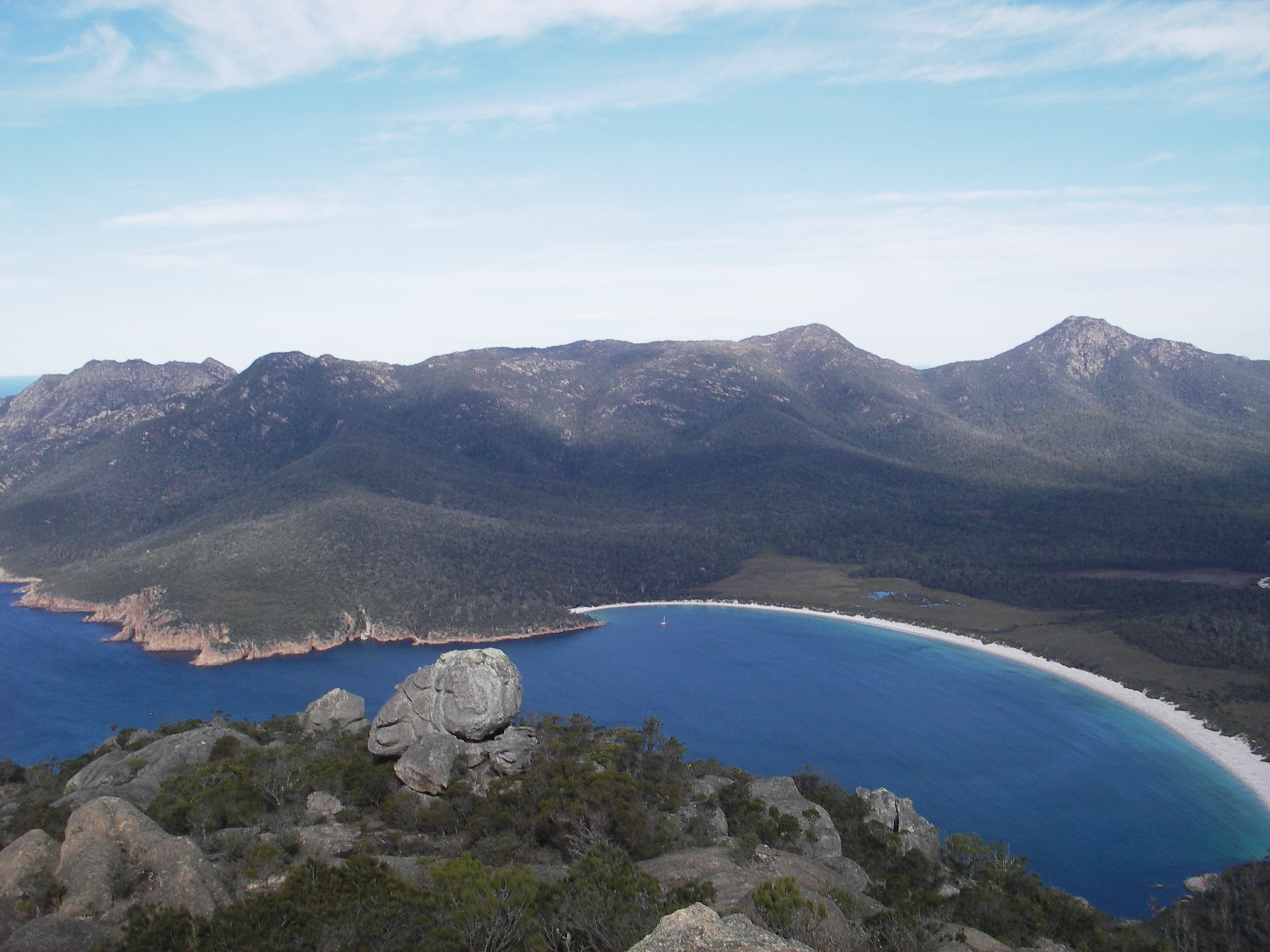 This photo was taken from the top of the Hazards range, looking south toward Wine Glass Bay.